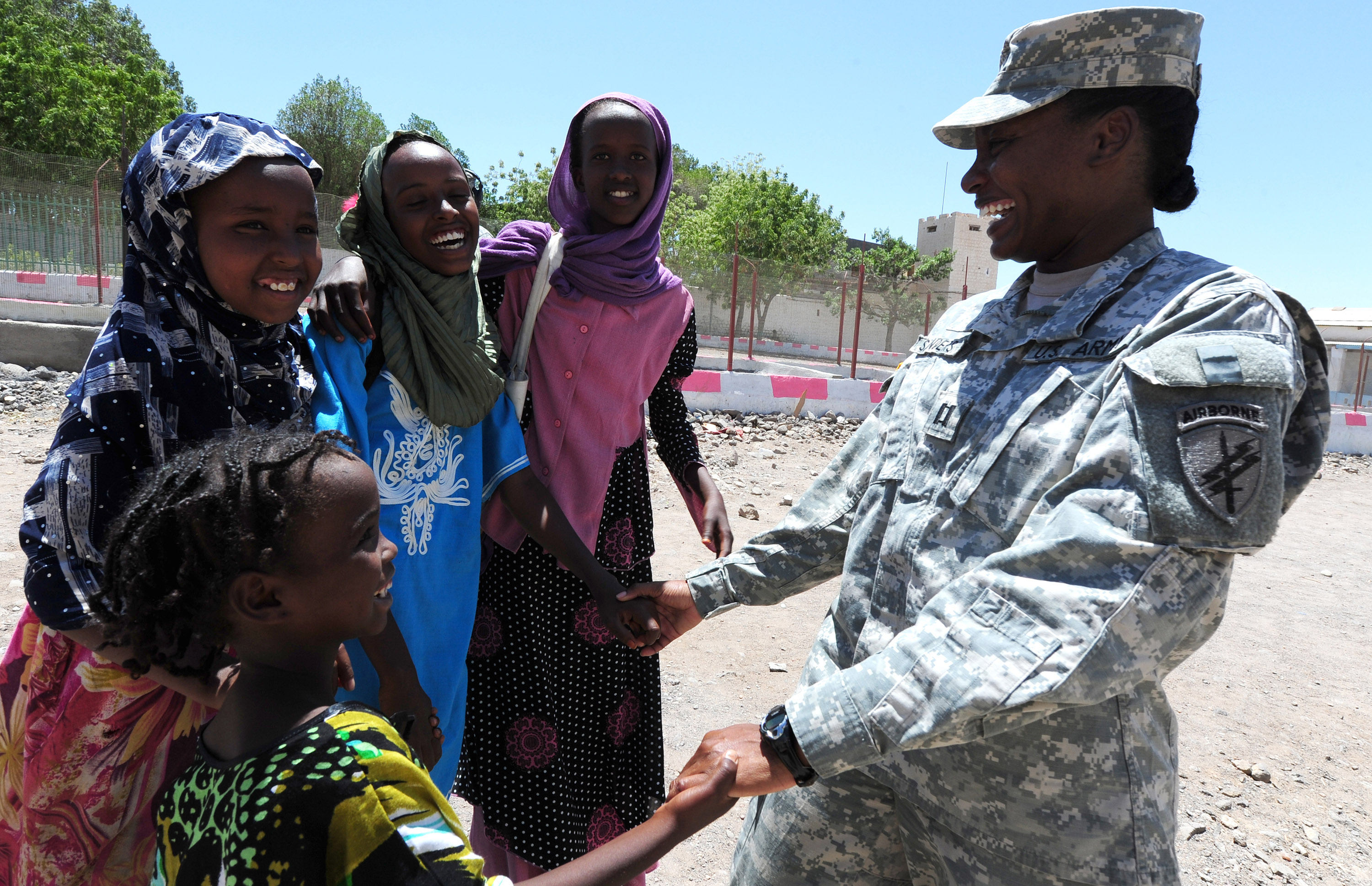 U.S. Army Capt. Courtney Sanders (right), with the 402nd Civil Affairs Battalion, laughs with a group of girls in front of the Dikhil High School in Dikhil, Djibouti, on April 19, 2011. The Battalion was working on renovating the school. The project, which began April 16, is scheduled to refurbish six classrooms, the school's roof and an office.